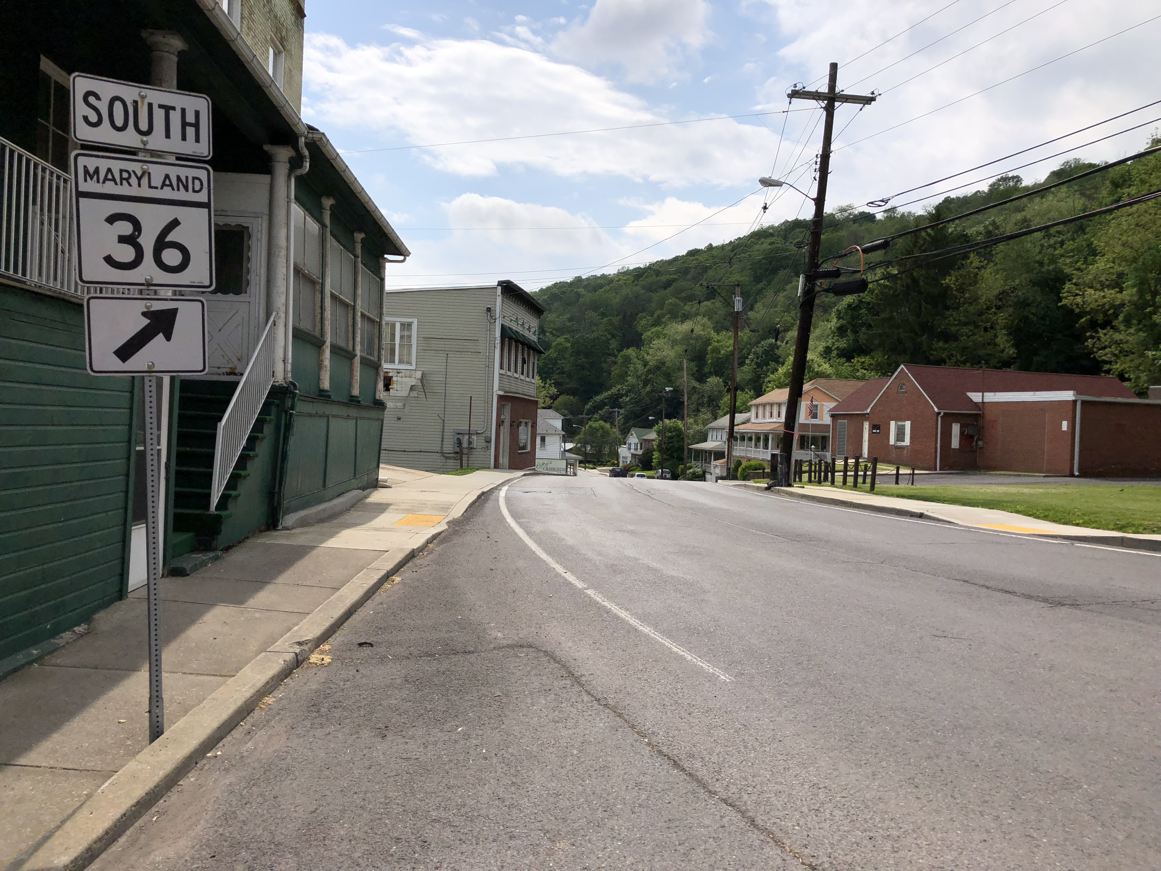 View south along Maryland State Route 36 (Main Street) at Union Street in Lonaconing, Allegany County, Maryland